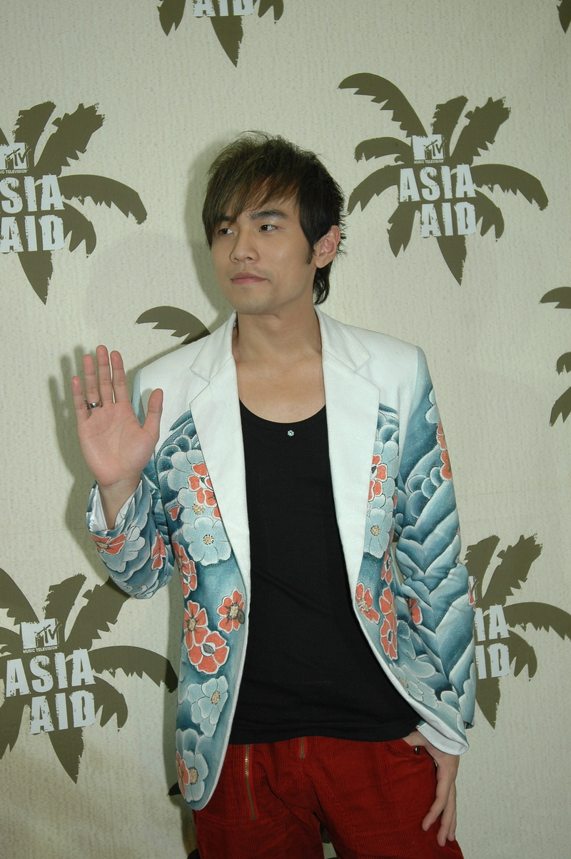 Jay Chou on red carpet MTV Asia Aid ,Bangkok Thailand 2005